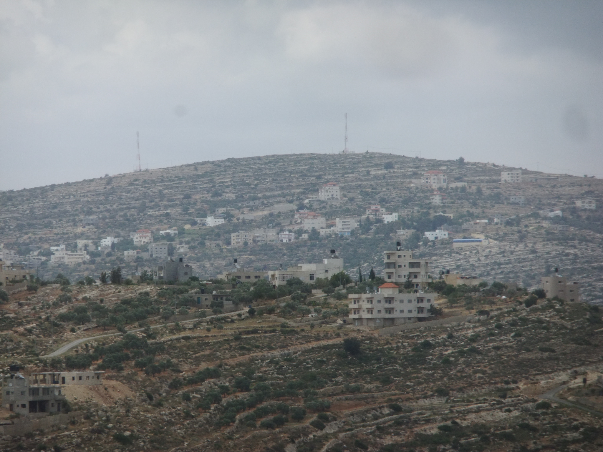 'Arura is the farther village. The closest houses are either Khirbat Jarwan or Deir as-Sudan as they are between them.